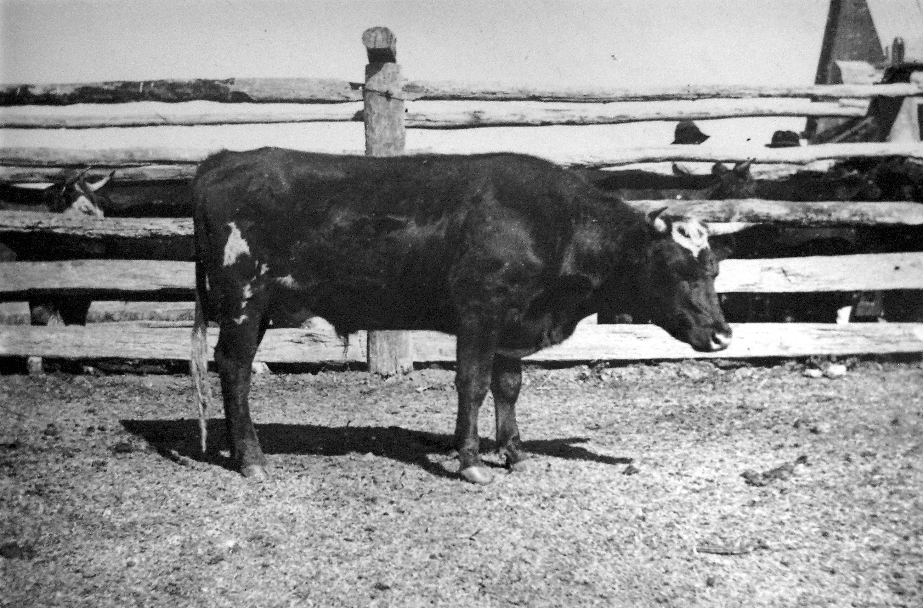 Tick Fever No. 2 Steer Mundoolun Experiments S. Queensland. (Description supplied with photograph) While clinical notes were not supplied with the photograph, there may be an indication of a lowered head suggesting the disease condition, similar to a photograph referred to in a report of the Mundoolun experiments by the Brisbane Courier newspaper on 15 May 1897, page 6: "the cow after the fever, with drooping head and a general woe-begone appearance".